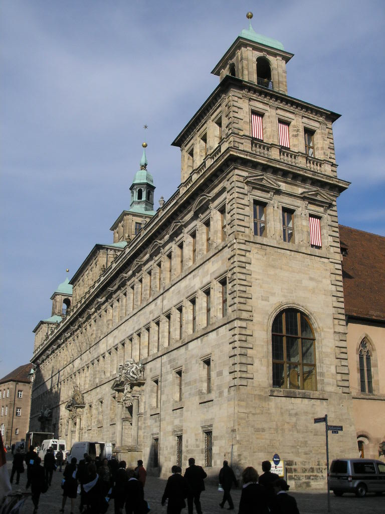 Image of the Rathaus (city hall) of Nürnberg, Bavaria.